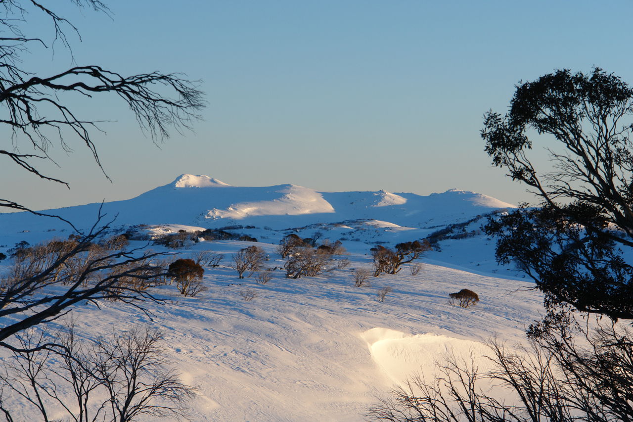 Morning sun shining on Mt Jagungal in Kosciuszko National Park, New South Wales, Australia. The picture is taken from near Mawson's Hut.